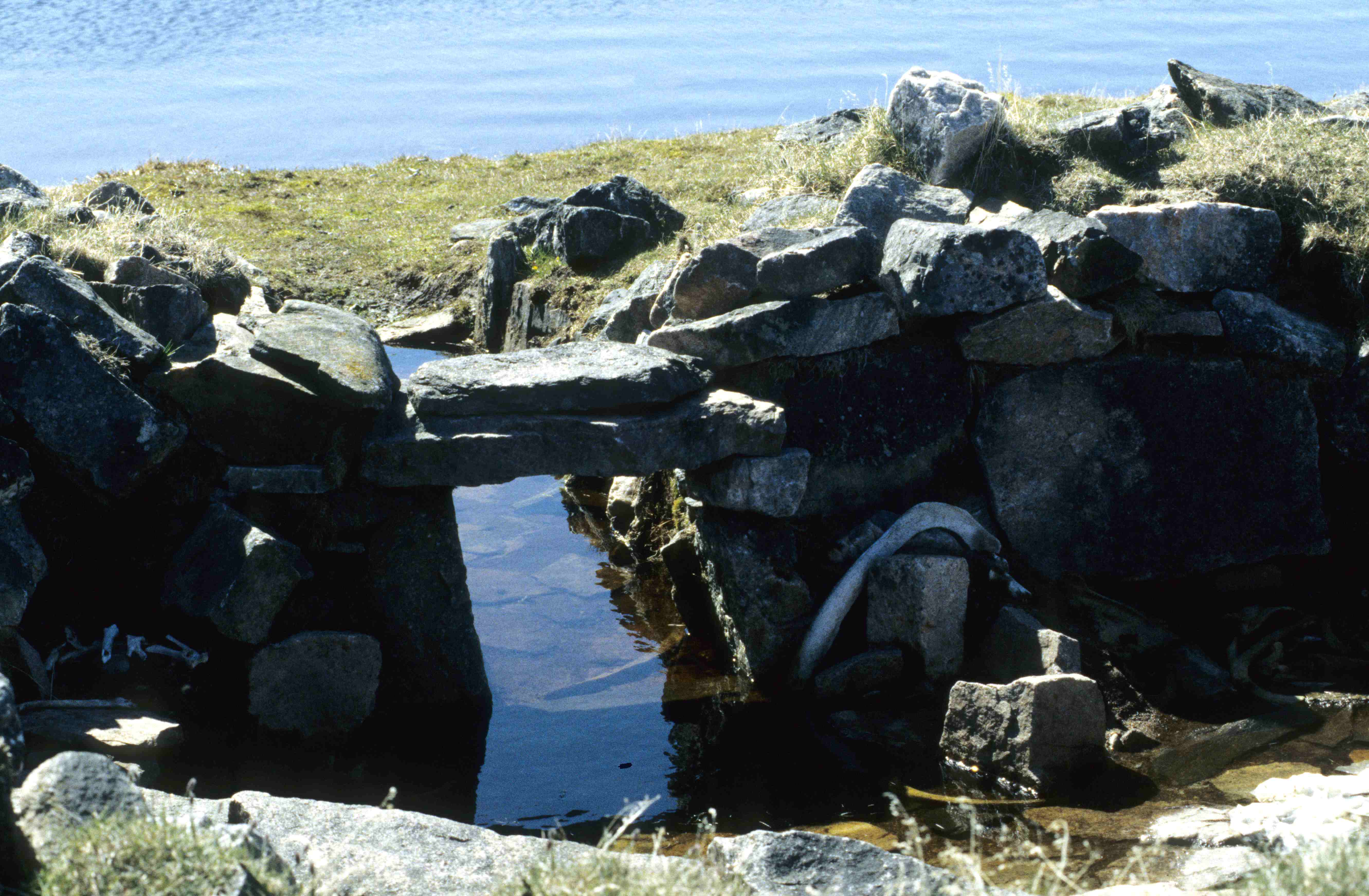 Thule site on Mallikjuaq Island (opposite Cape Dorset)